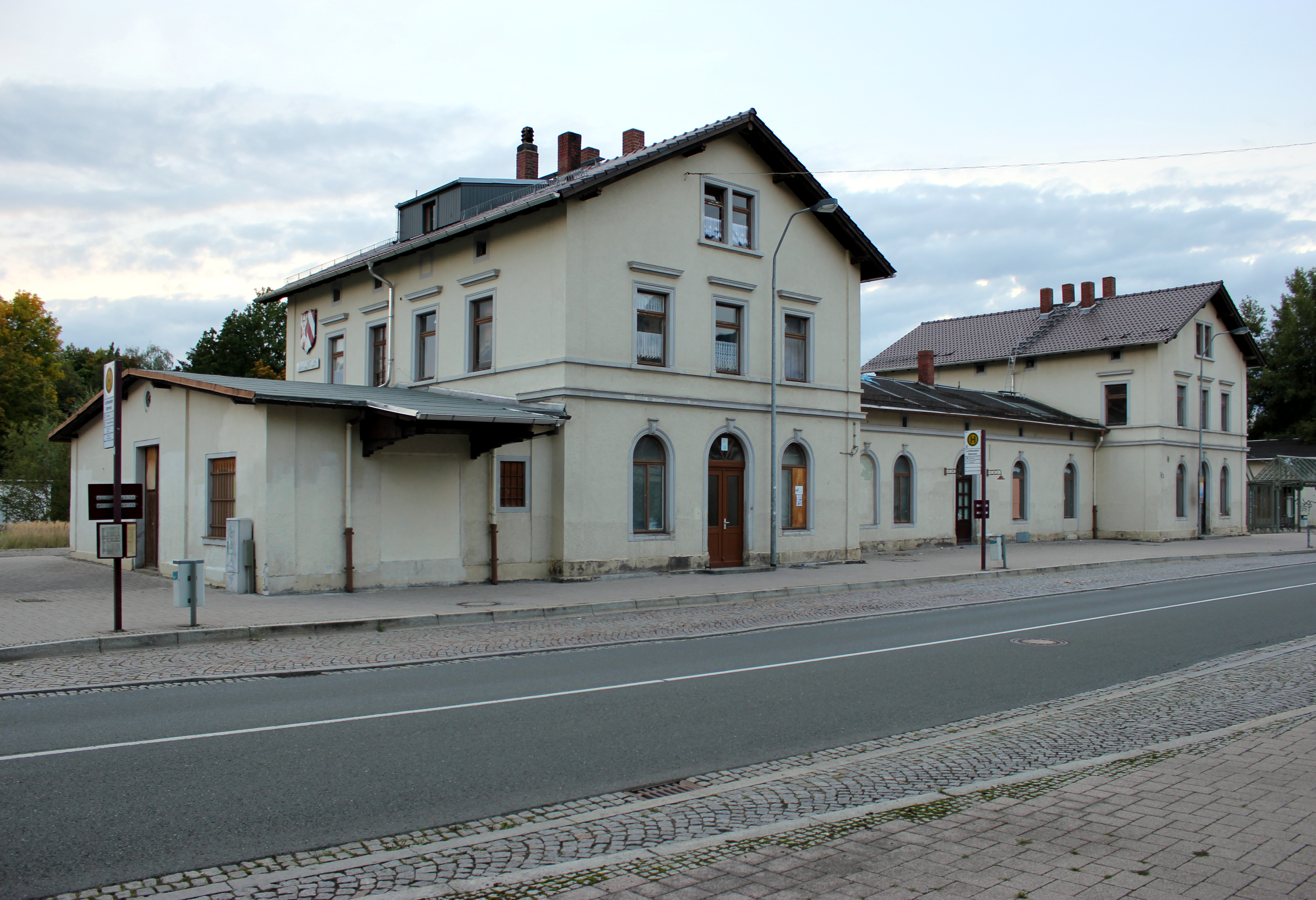 Train station in Lichtenstein, Saxony.